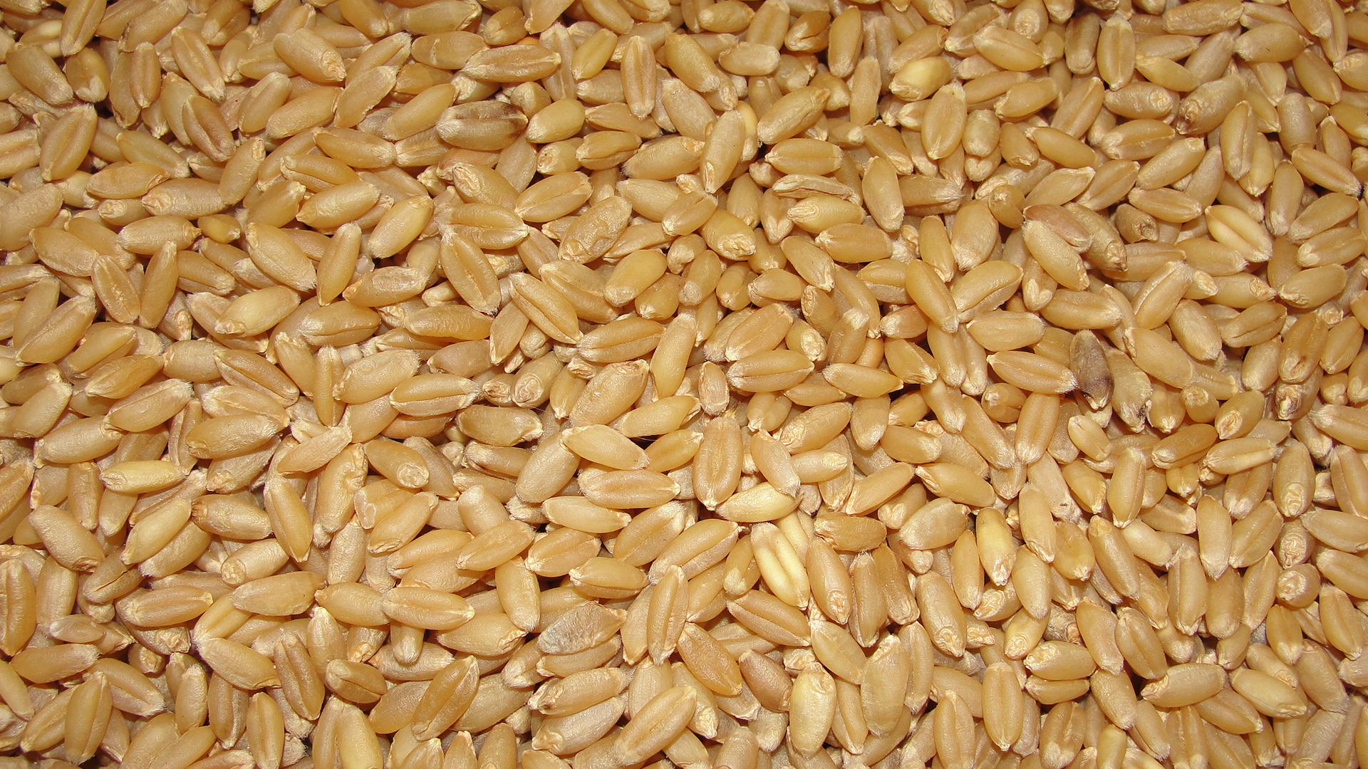 A closeup scene of wheat.